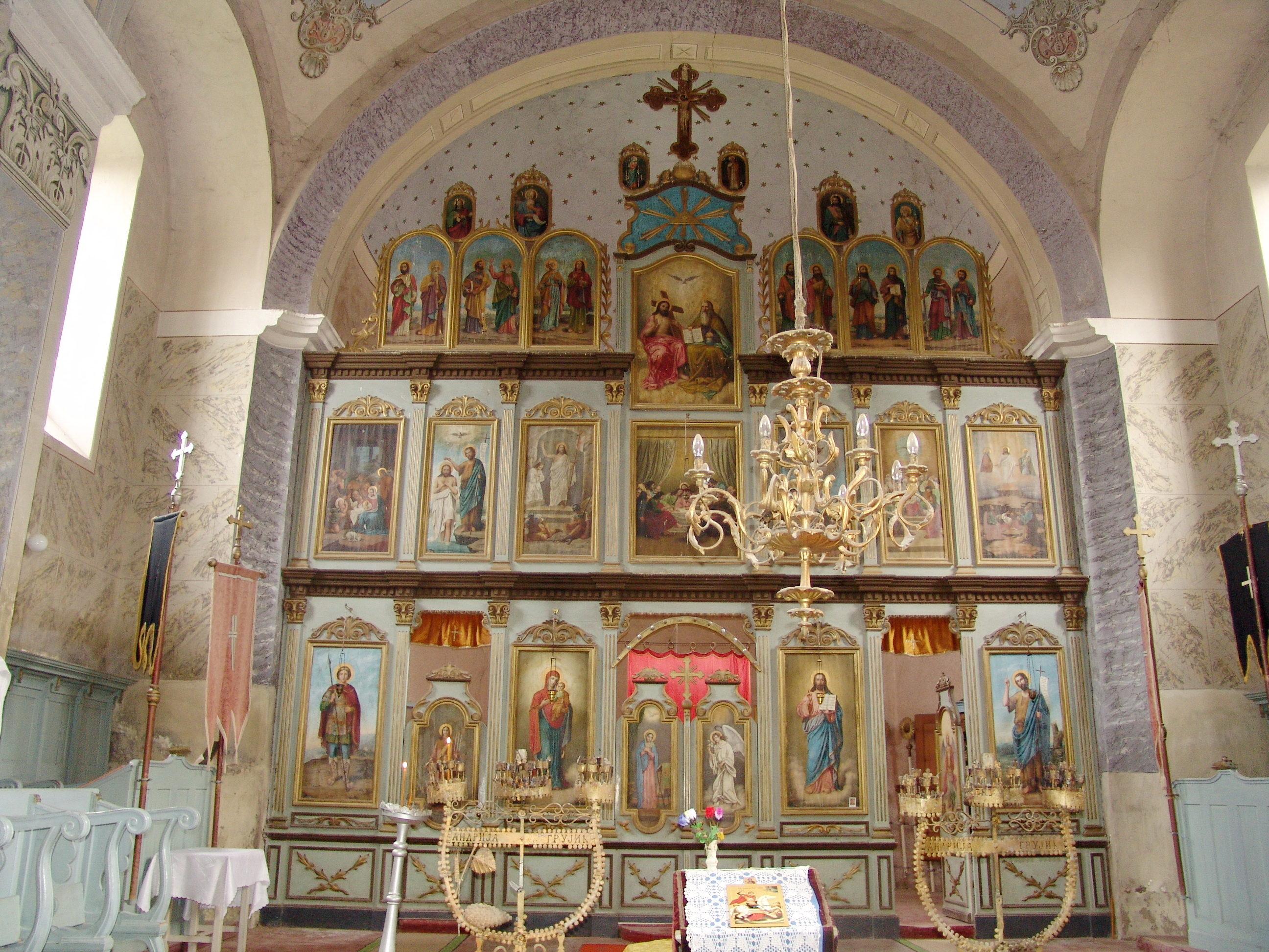 Serbian Orthodox church of Saint George in Taraš - iconostasis